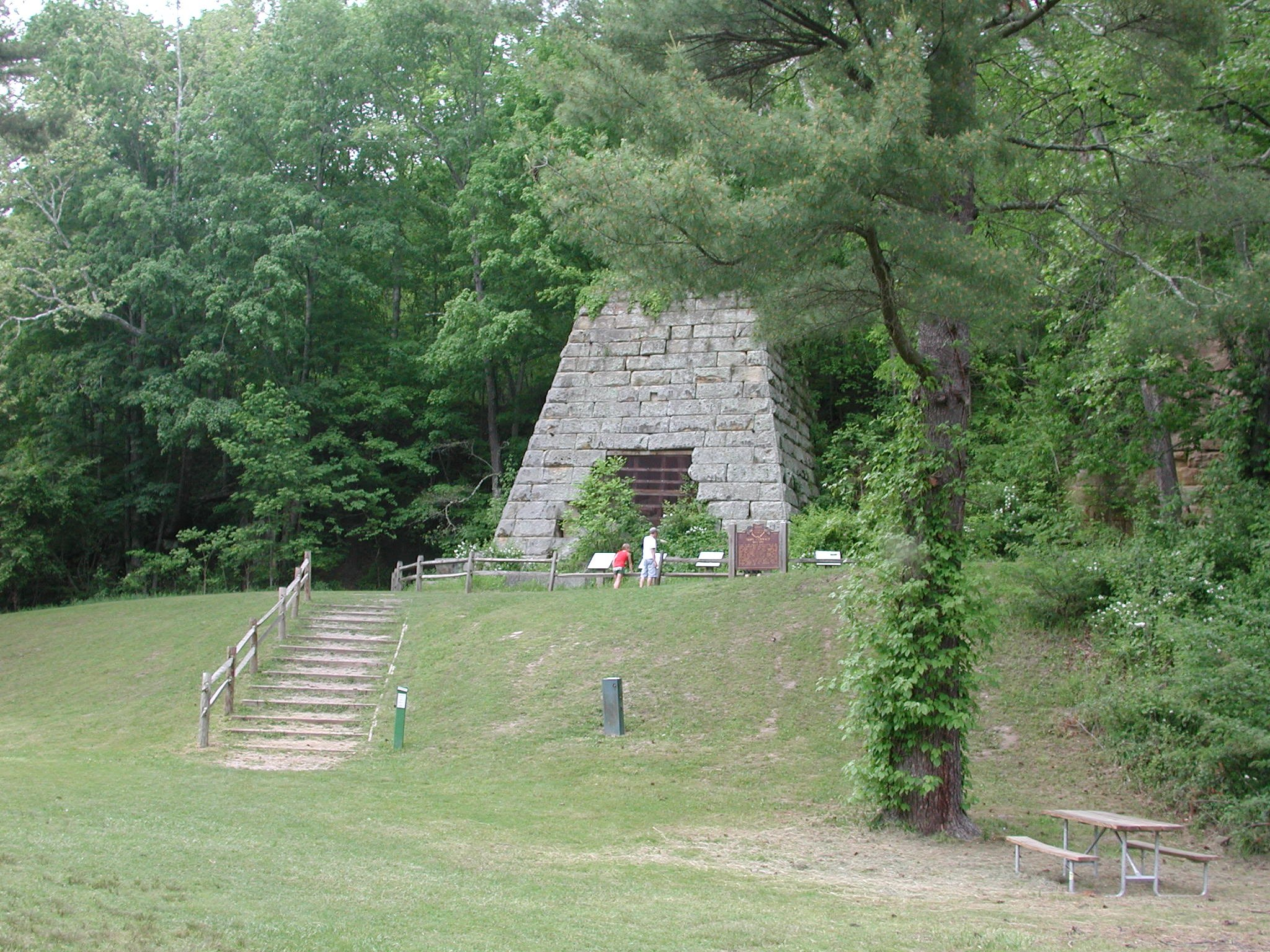 The Hope Furnace, an old iron furnace in Lake Hope State Park — located in Vinton County, Ohio.